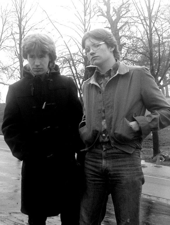 Storm Bugs: Philip Sanderson (left) and Steven Ball (right) shot in Greenwich Park, London in 1979